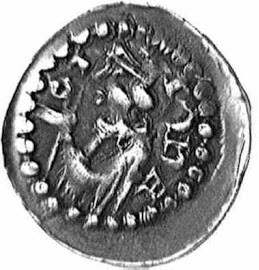 Côté face d'une pièce représentant Jean Ier D'aspremont